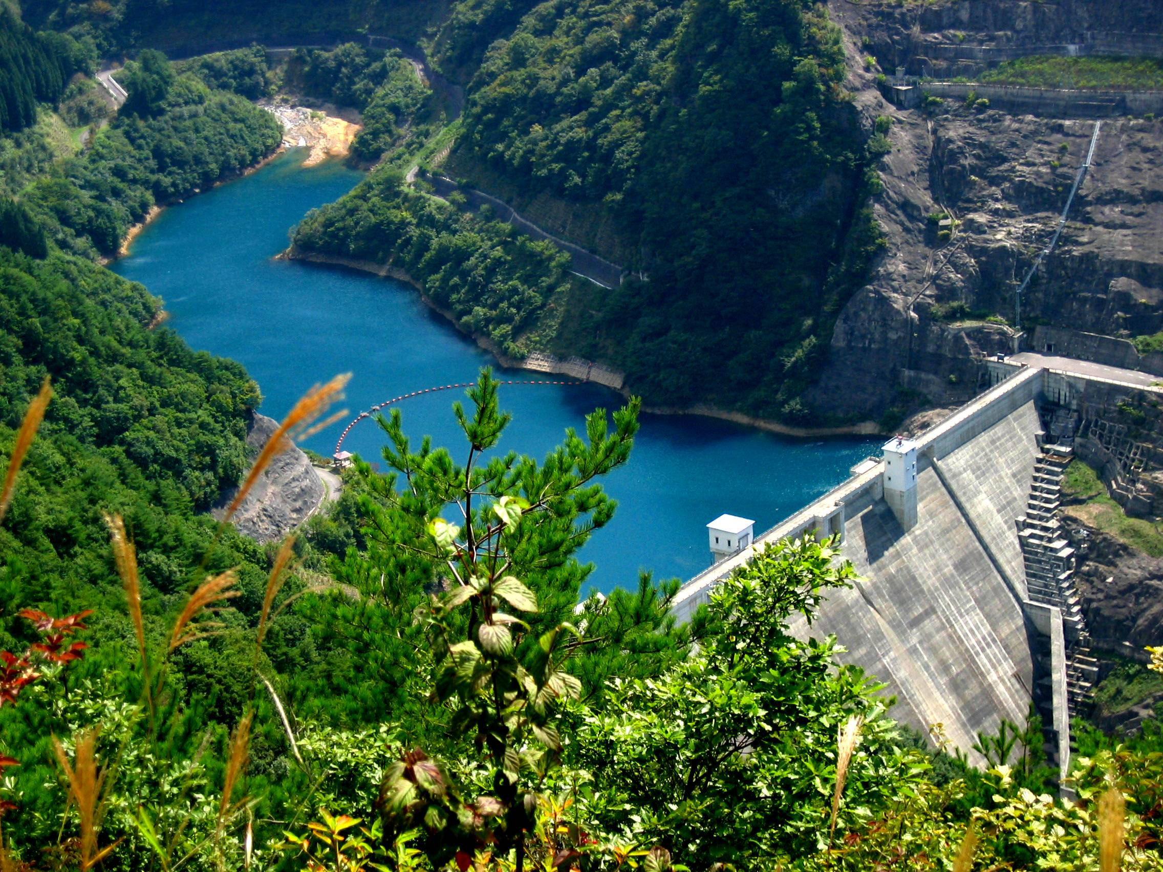 Toyoka Dam (豊丘ダム) is a dam in Suzaka city, Nagano prefecture, Japan.